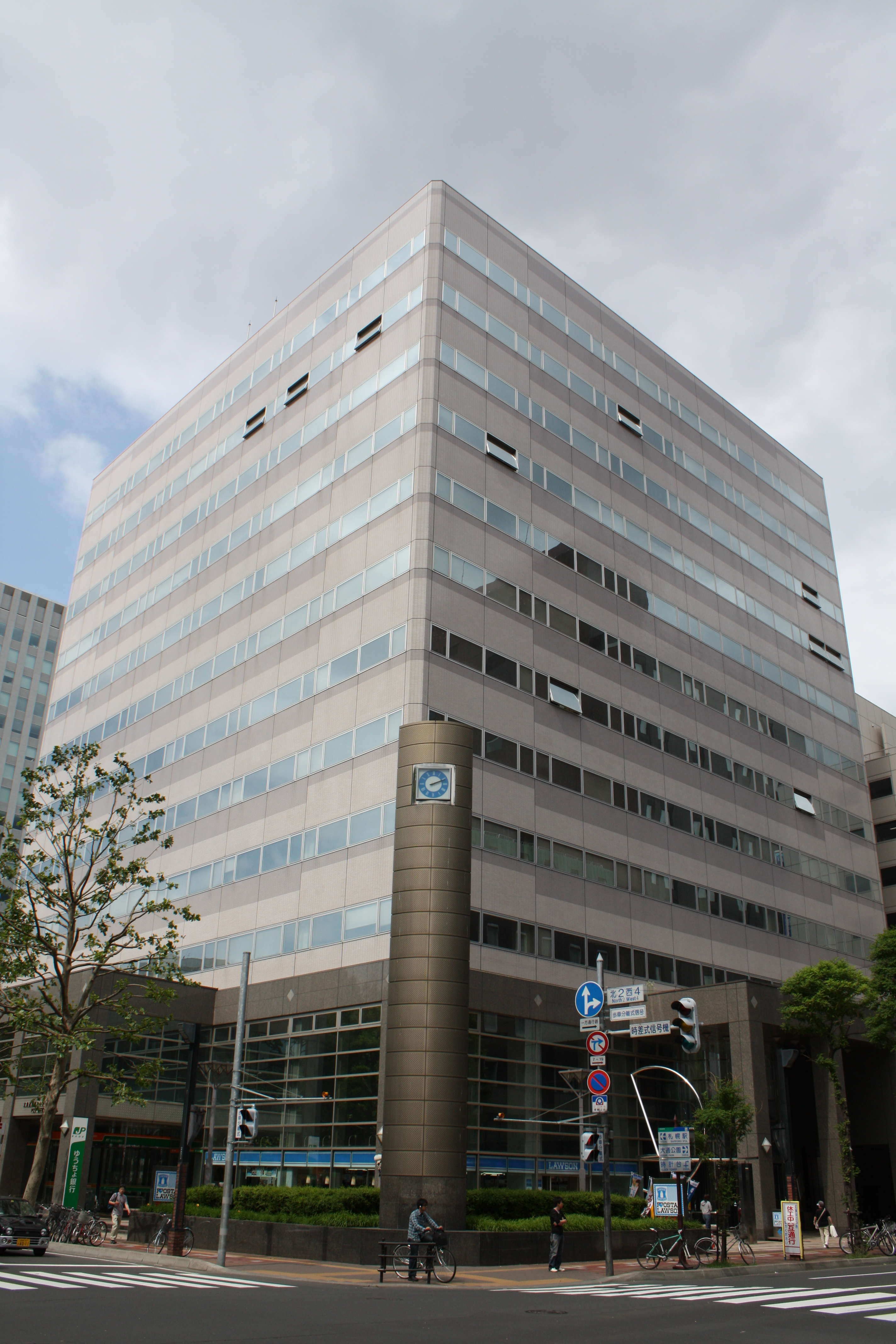 Japan Post Group Sapporo Building in Sapporo, Hokkaido, Japan